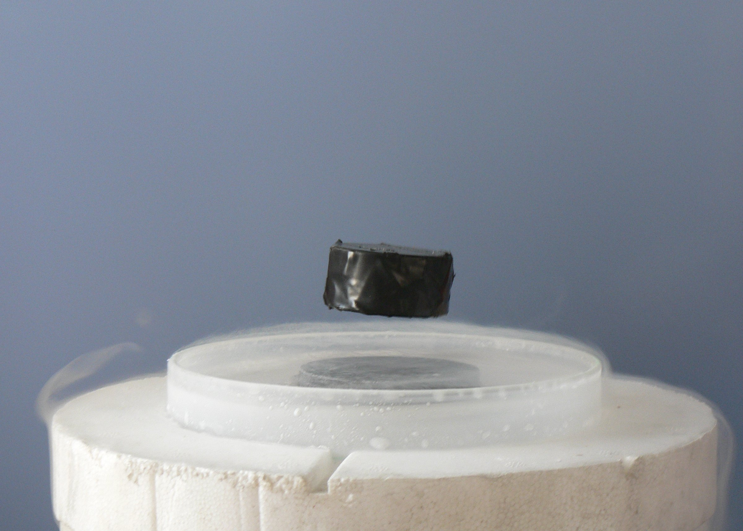 Meissner effect: levitation of a magnet above a superconductor